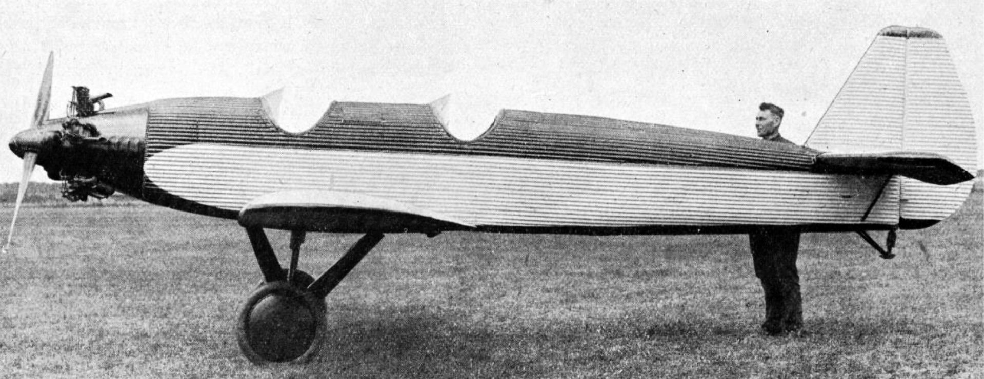 Junkers A 50 Junior photo from L'Aéronautique July,1929